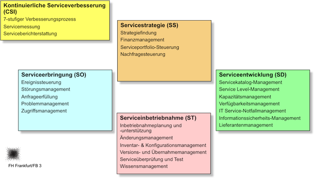 ITIL v3 2007 processes German version